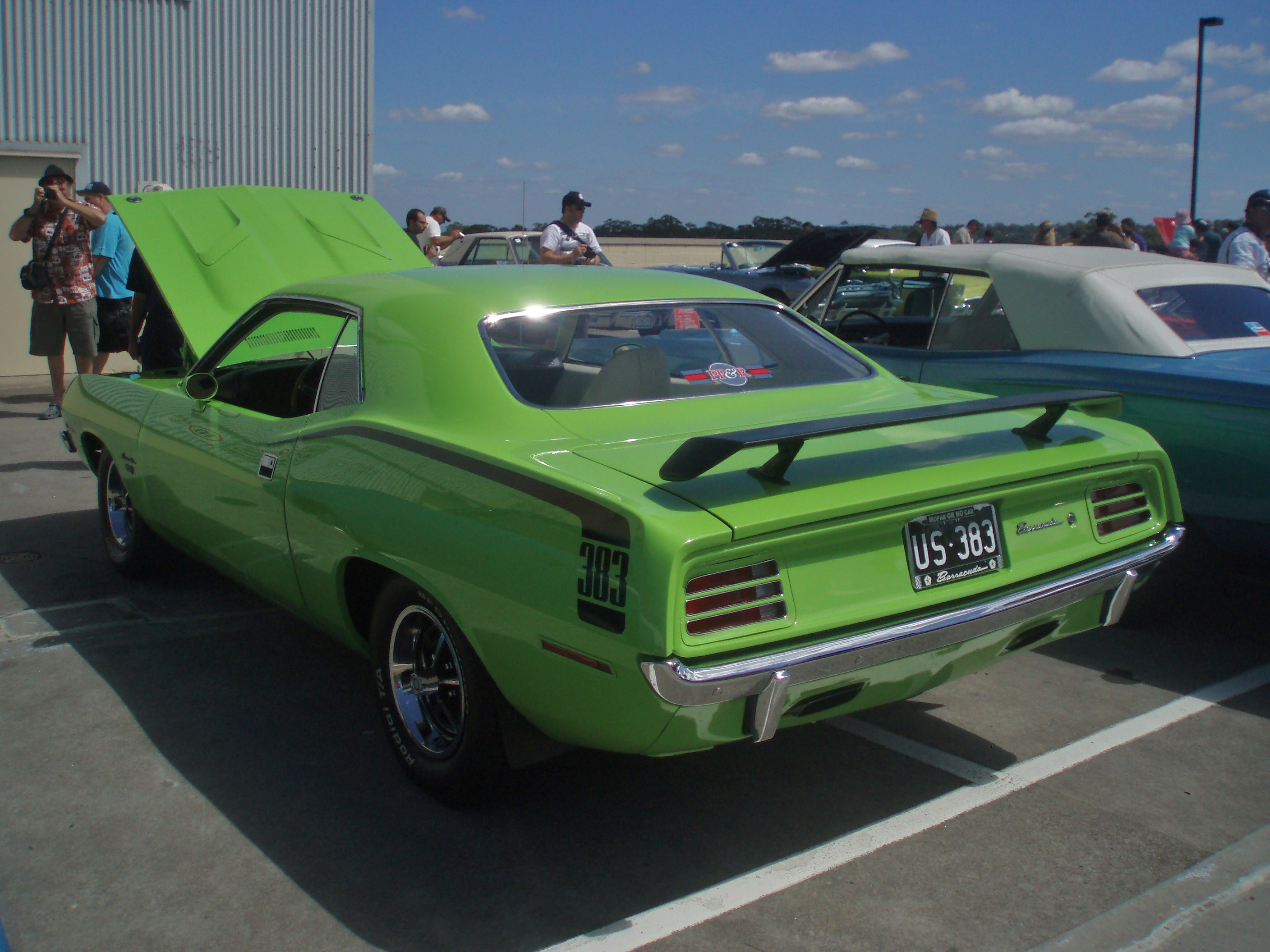 1970 Plymouth Barracuda 383 coupe. Taken at the 2009 New South Wales All American Day, held at Castle Towers Shopping Centre, Castle Hill, Sydney.